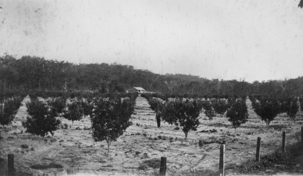 Young fruit trees flourishing in the Soldier Settlement, Amiens, ca. 1922